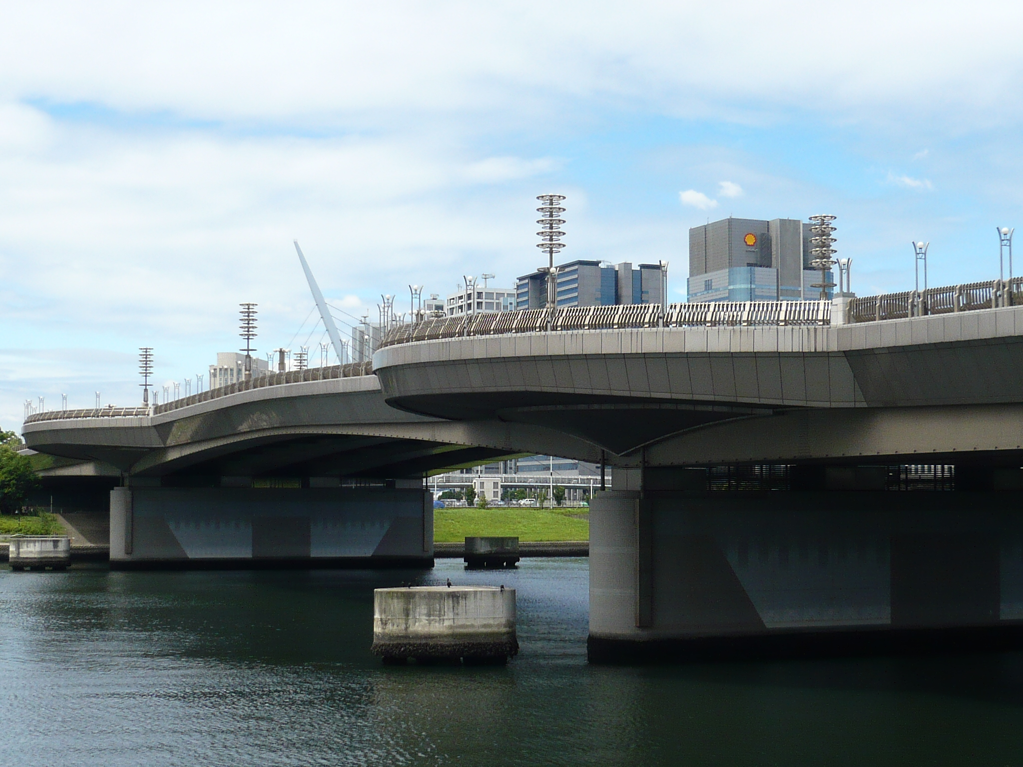 Dream Bridge(Yume-no-oohashi、夢の大橋) in odaiba,Tokyo,Japan.